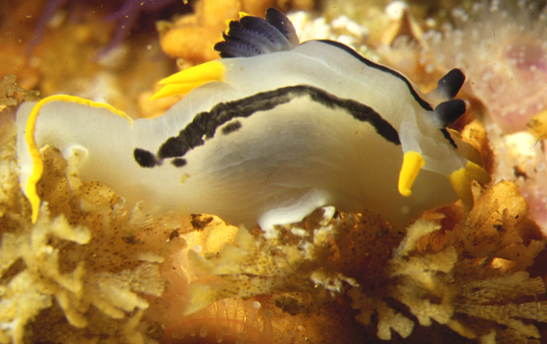 Nudibranch that feeds on bryozoans, especially Bugula.